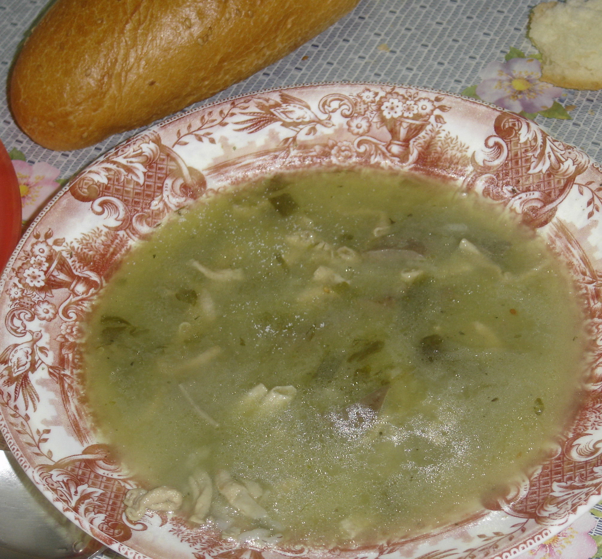 A dish with "mageiritsa" , a traditional meat-based food, eaten in Greece, at Easter.